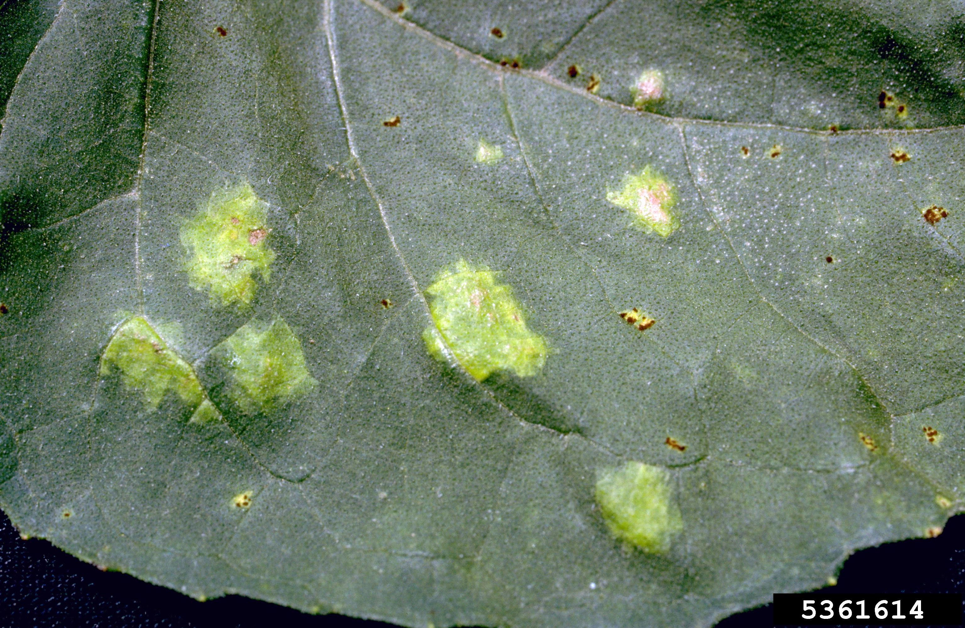 Photo of sunflower leaf with white rust symptoms